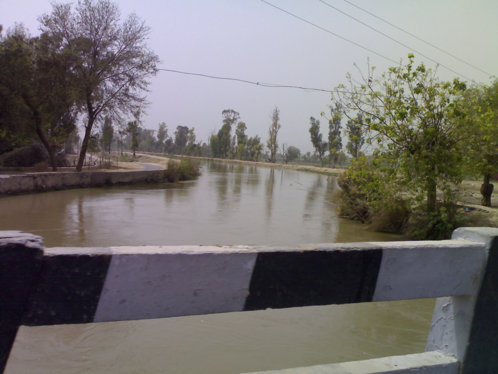 I (wikiuser:Shemaroo aka Shivender Singh)have taken and uploaded by me.In this photo you can see a view of Gang Canal of Rajasthan.This photo is taken from a bridge on Hanumangarh-Ganganagar road. Shemaroo (talk) 11:59, 25 March 2012 (UTC)